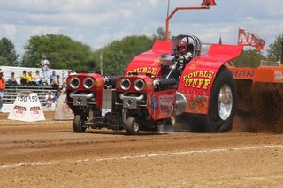 Tractor